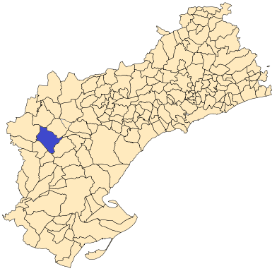 Gandesa